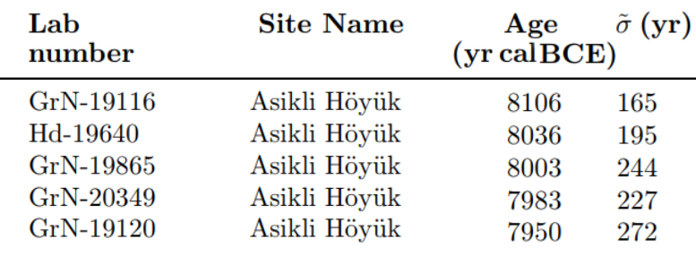 Earliest Carbon 14 dates for Asikli Hoyuk as of 2013